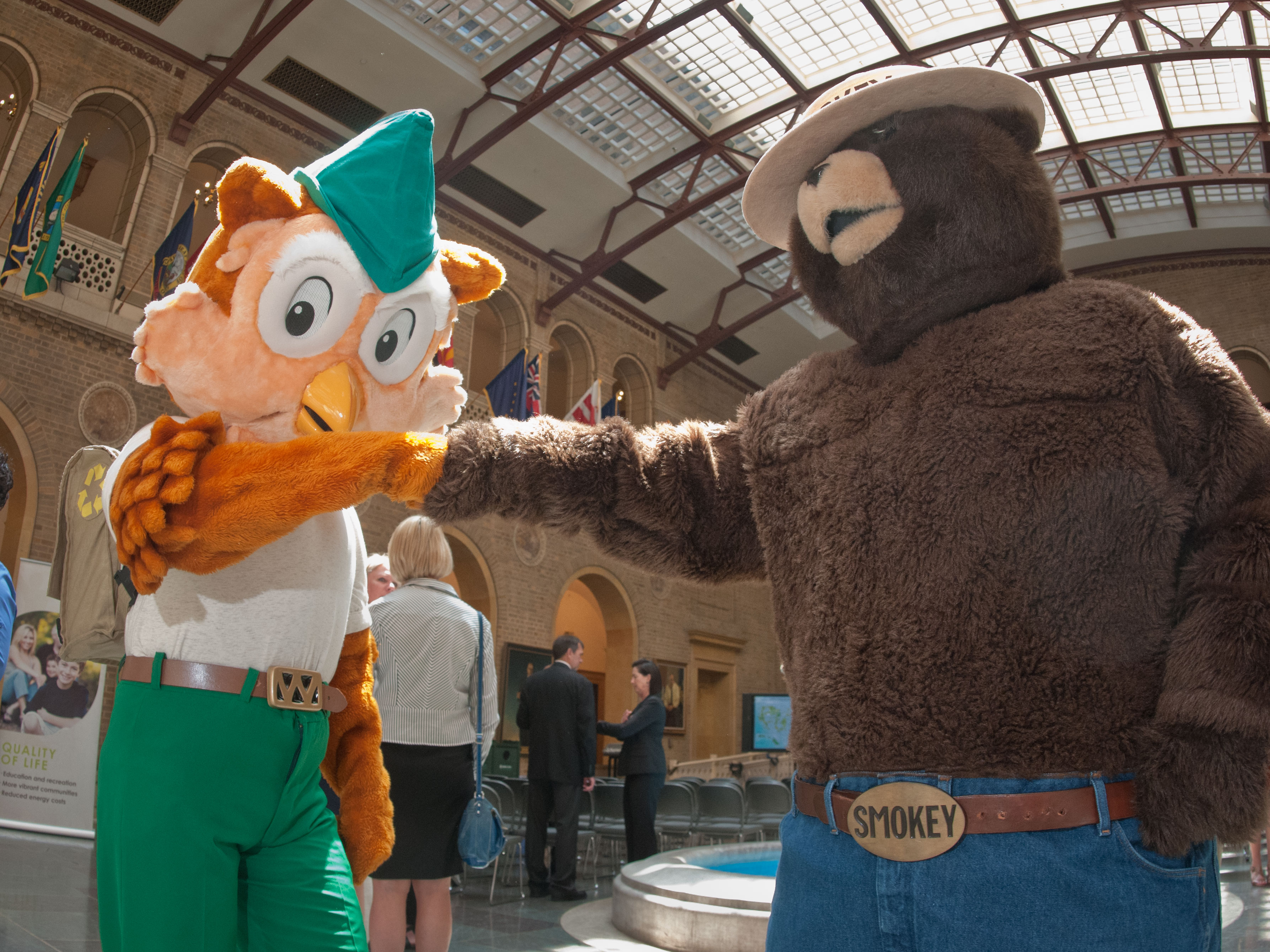 Woodsy Owl (left) and Smokey Bear give each other a fist bump at the International Year of Forests (IYOF) celebration for U.S. Department of Agriculture employees, on Friday, June 3, 2011 in the Patio of the Whitten Building, Washington, DC. USDA Photo by Lance Cheung.